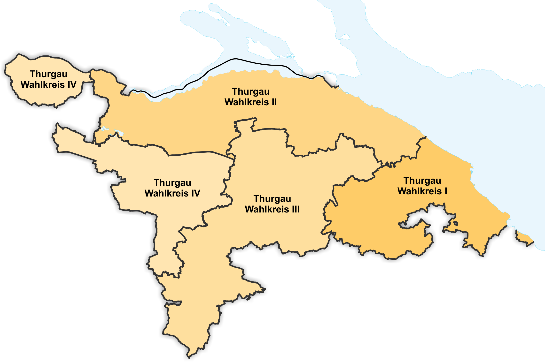 National council constituencies in the canton of Thurgau from 1848